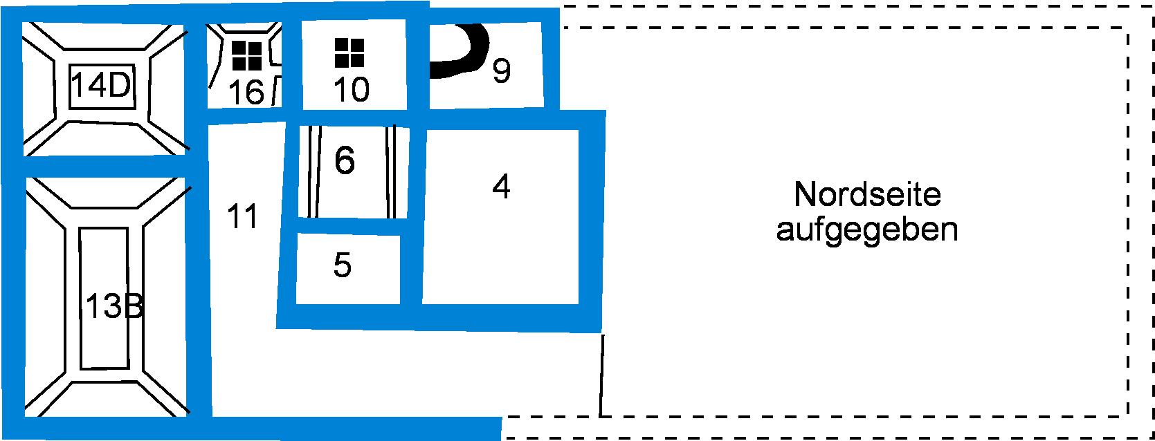 Roman villa Crofton, plan of the villa around AD 300